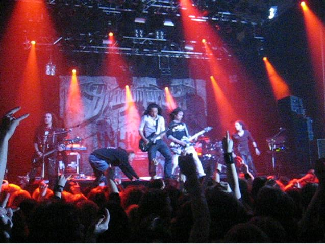 DragonForce Finnish Metal Expossa